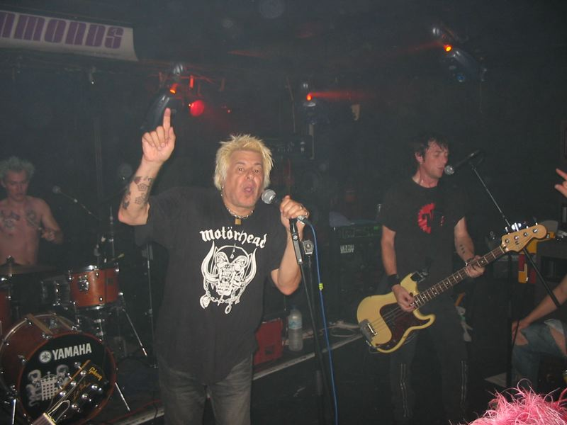 UK Subs, Cafe Drummonds 24th June 2007